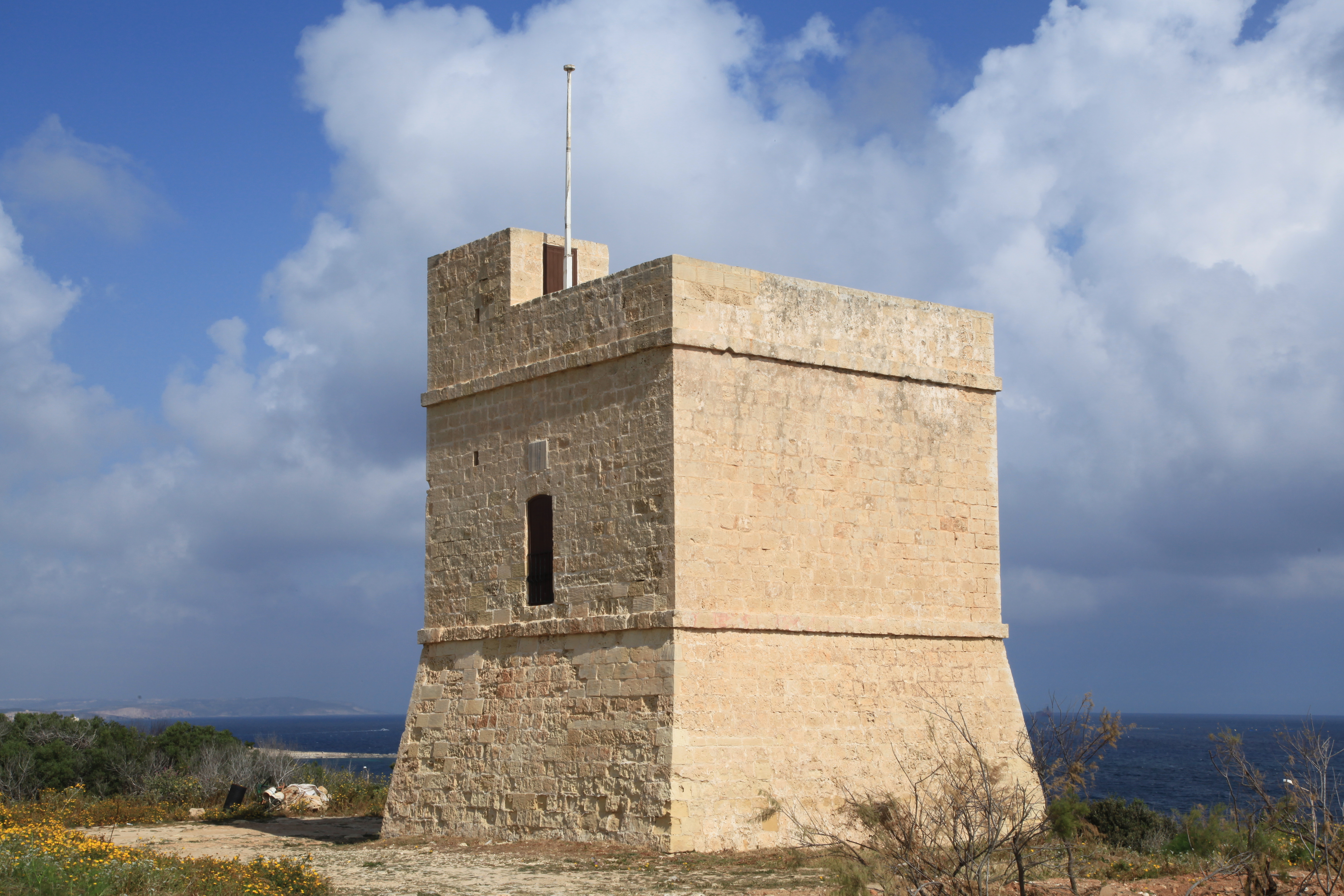 Għallis Tower at Tul il-Kosta in Naxxar, Malta